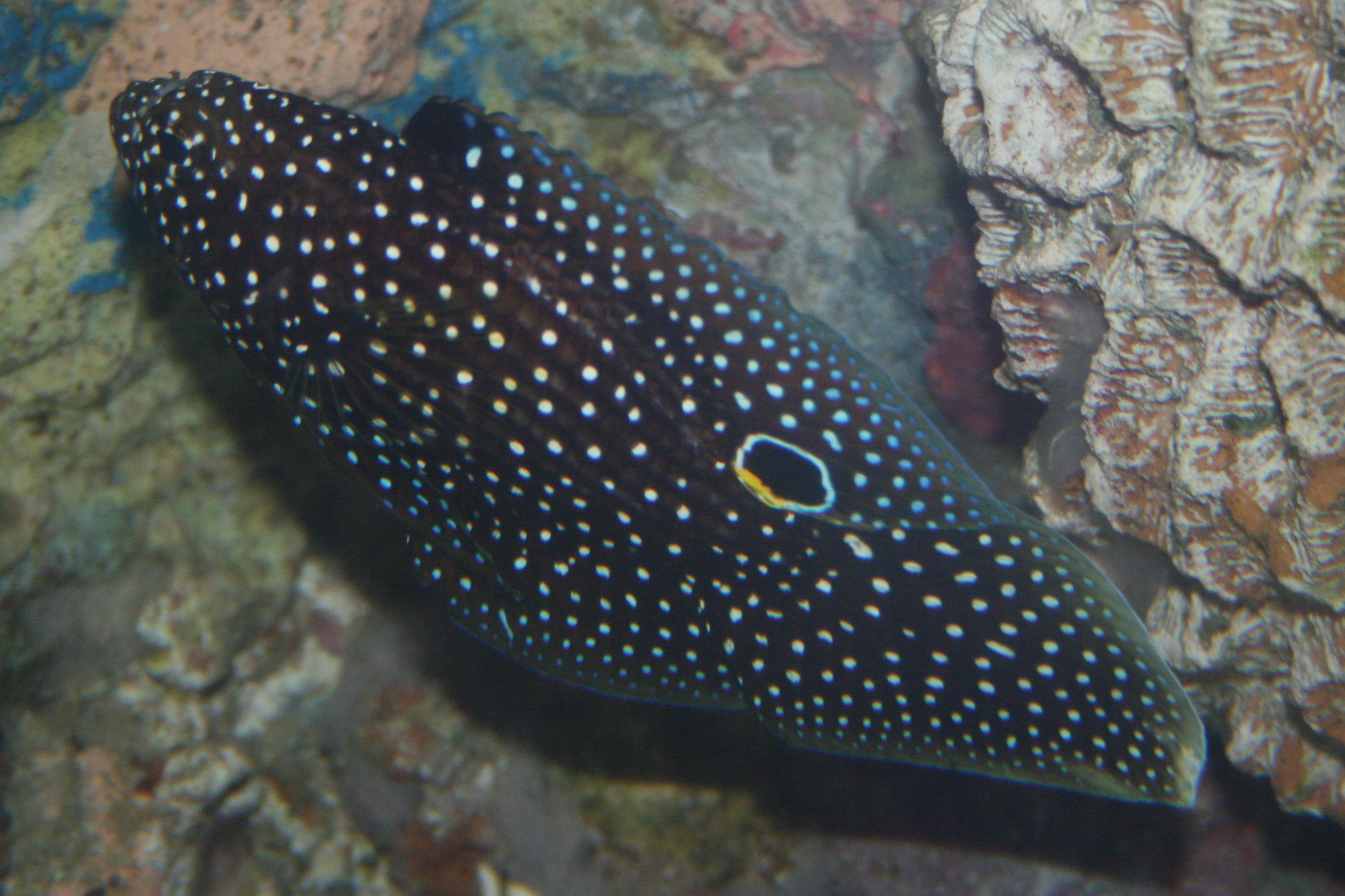 A Comet (Calloplesiops altivelis) at the Riverbanks Zoo & Garden in Columbia, SC.